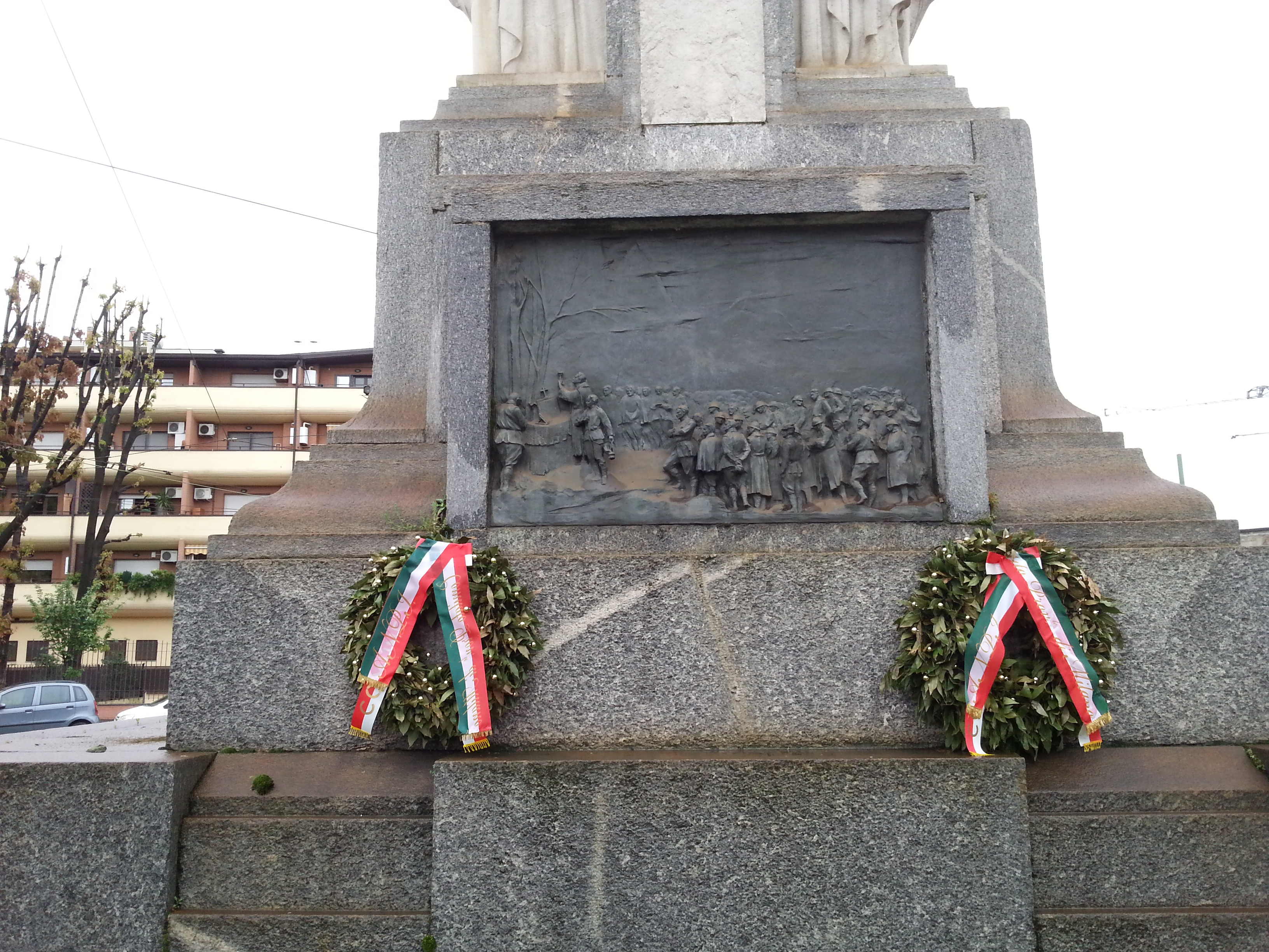 Low relief of Musocco War Memorial: at north the mass